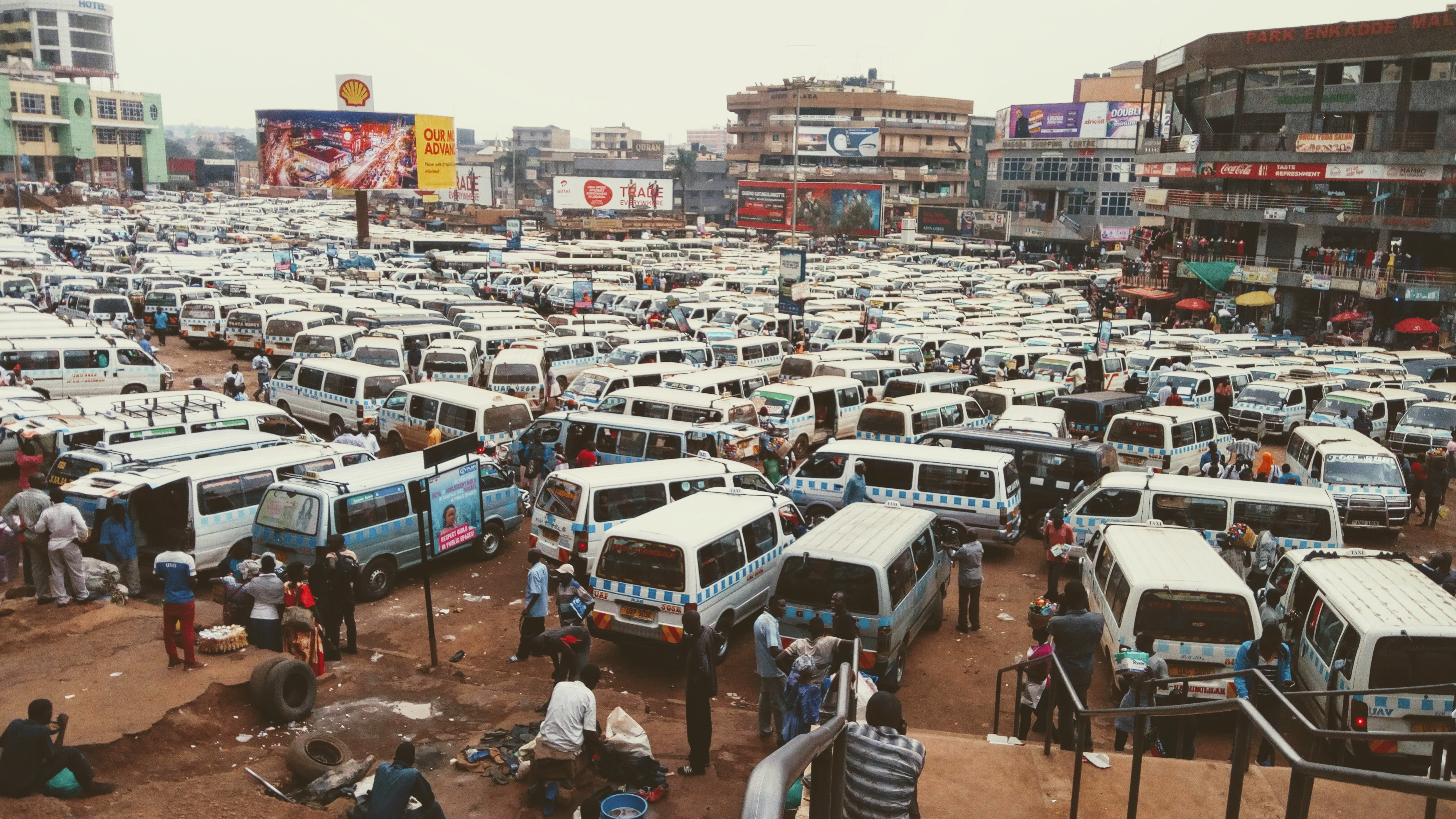 The chaos in there makes it the more interesting mode of transport. This is an image with the theme "Africa on the Move or Transport" from: Uganda